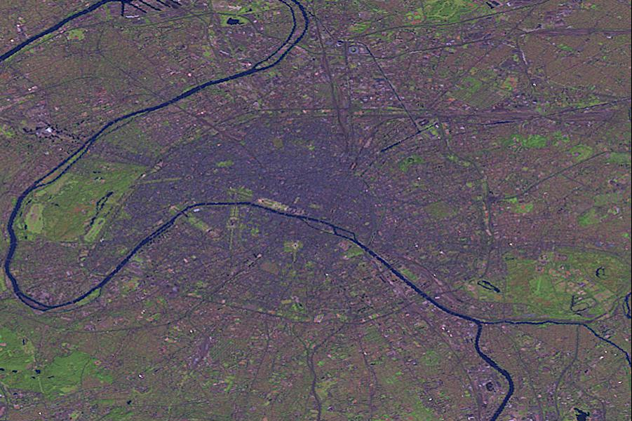 Paris by Landsat.